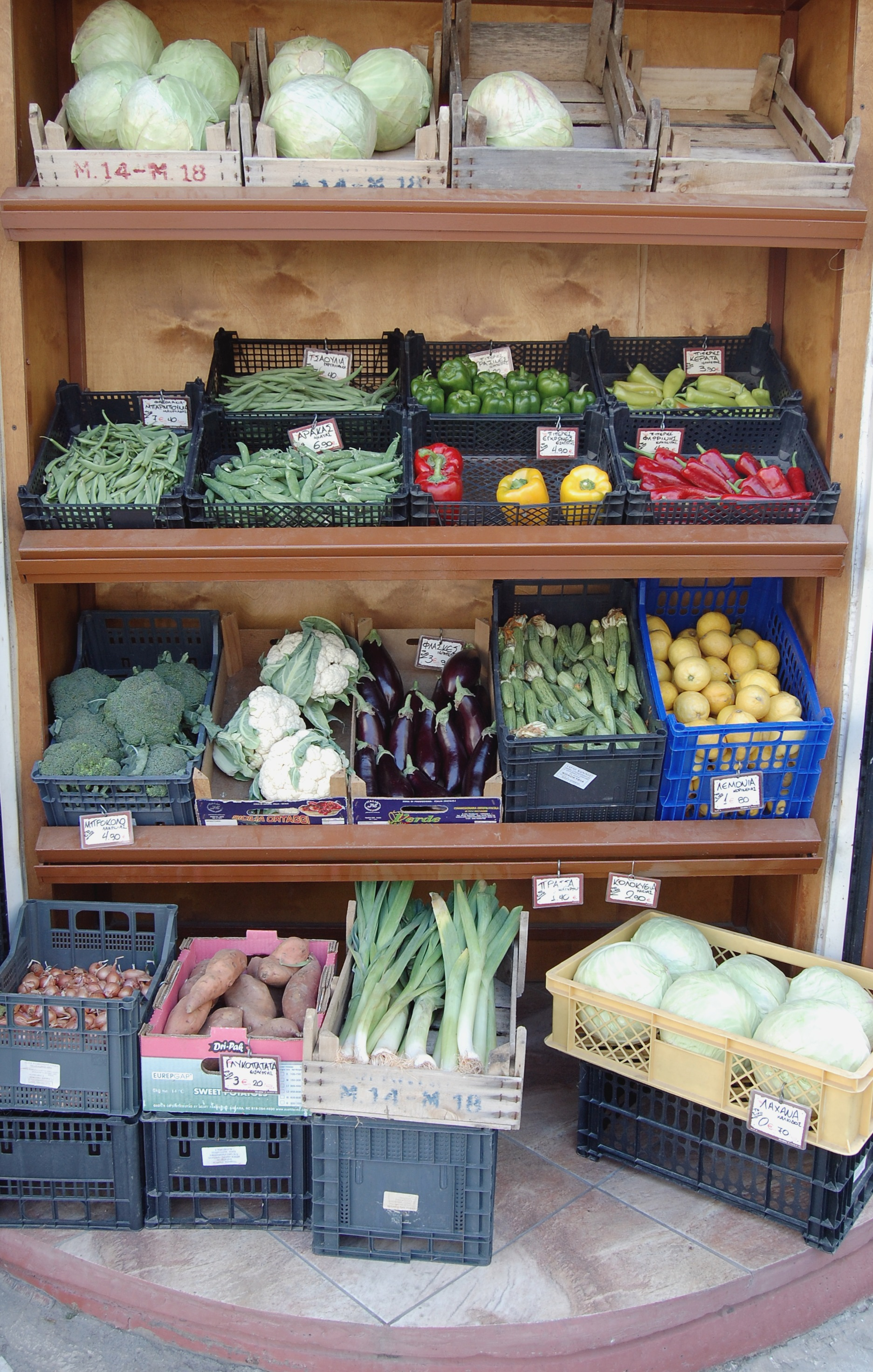 Vegetables for sale at a grocery in Metz, Athens, Greece.